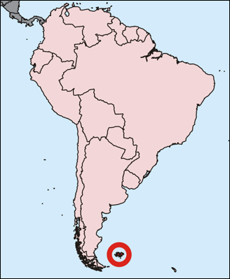 Map of South America, Falkland Islands highlighted